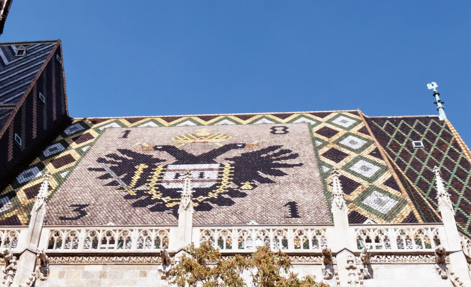 Wien - Stephansplatz - View NNE & Up on Stephansdom's Roof covered with 230.000 Glazed Tiles in 7 Colours from the Poštorná (Moravia) Tile Factory